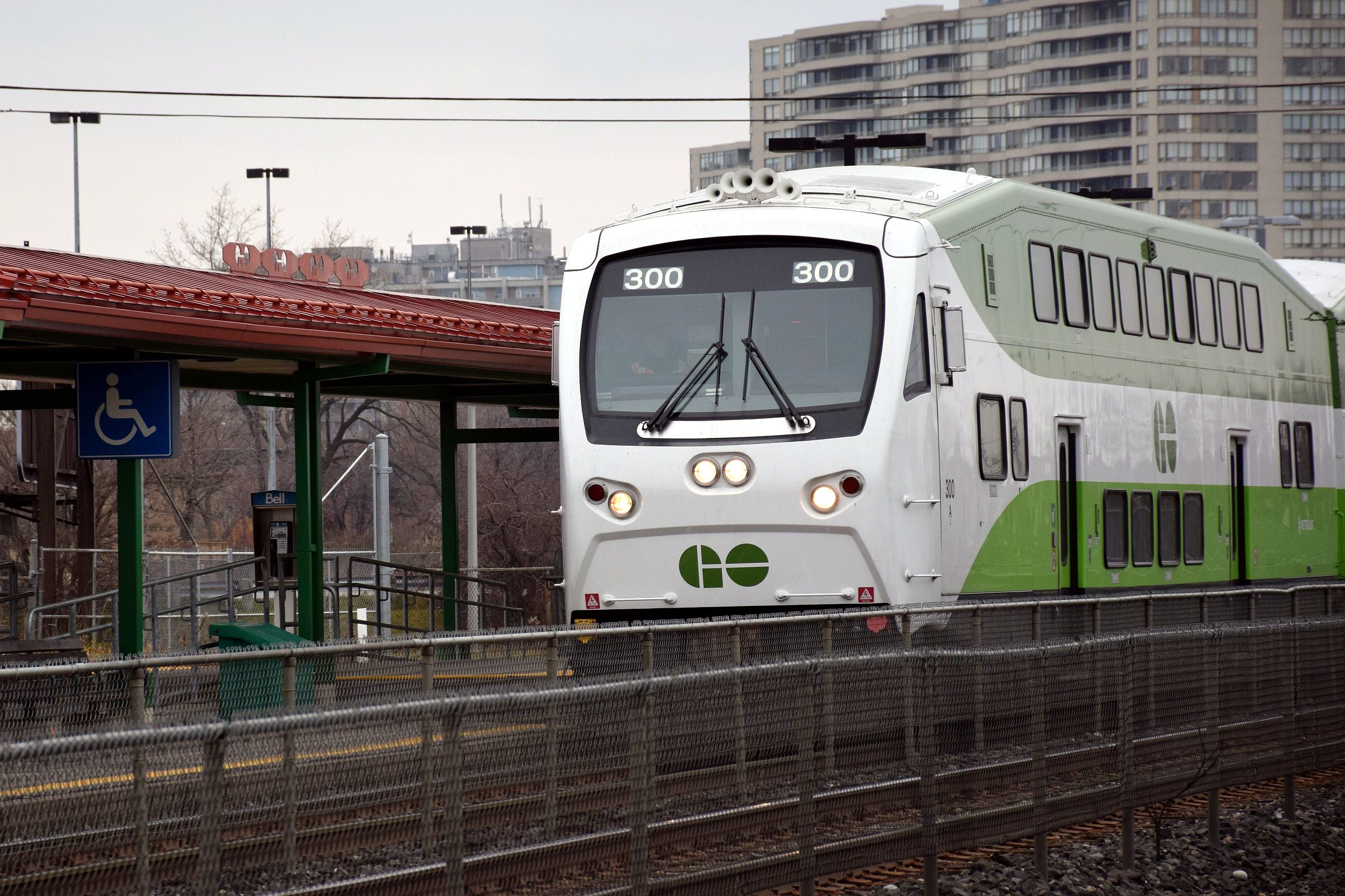 Train at Scarborough GO Station